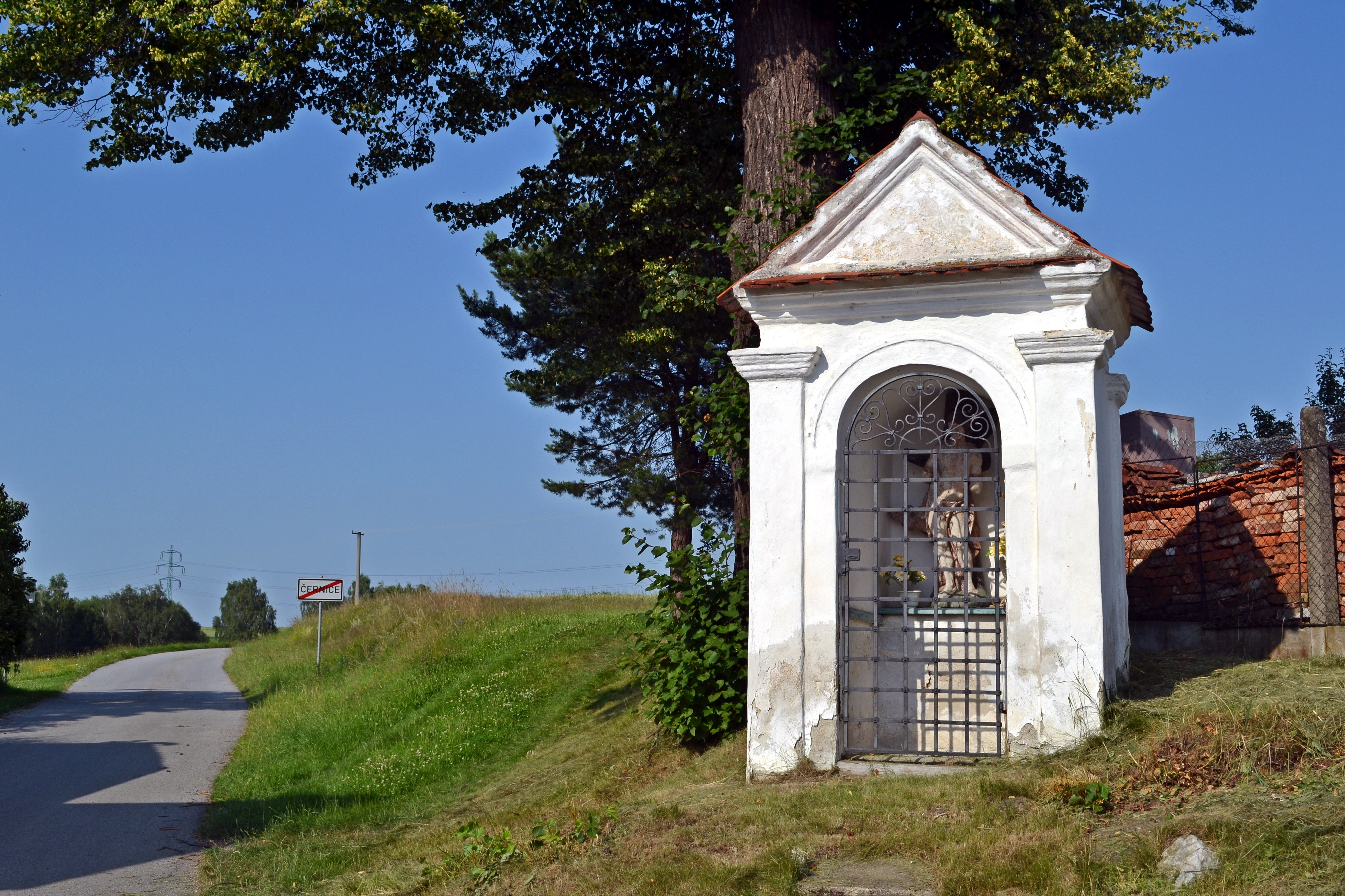 A wayside shrine in Mojné-Černice, South Bohemian Region, Czech Republic.